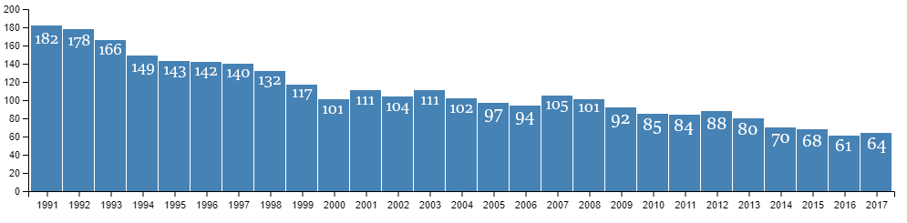 Population of Greenlandic settlement Kapisillit in 1991-2017